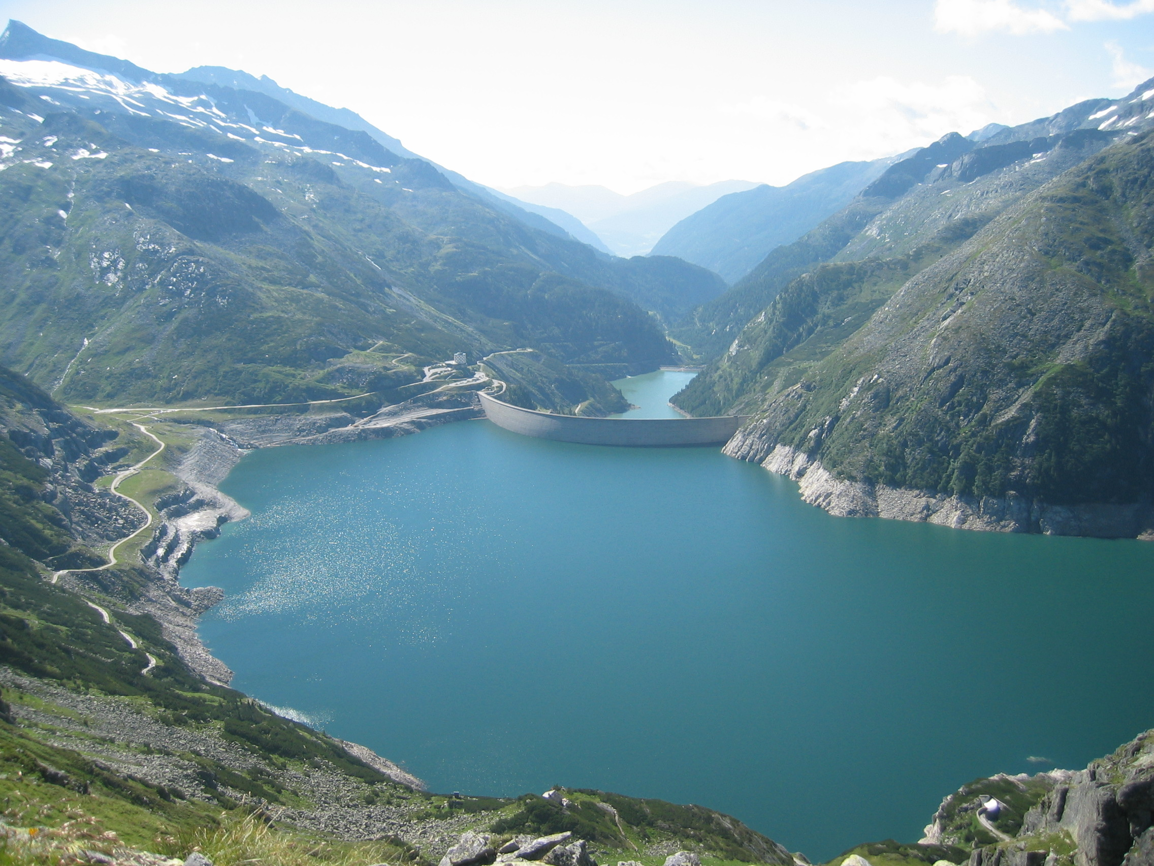 Kölnbreinsperre and Galgenbichl reservoir seen from Arlhöhe